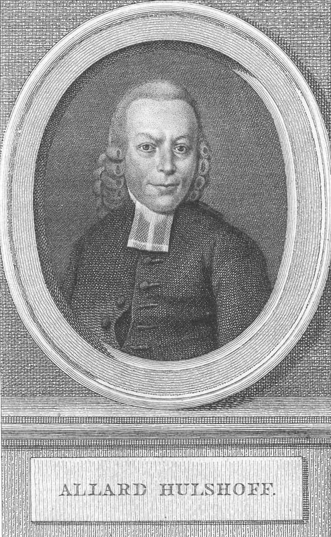 Allard Hulshoff (1734-1795) Dutch Reformed theologian